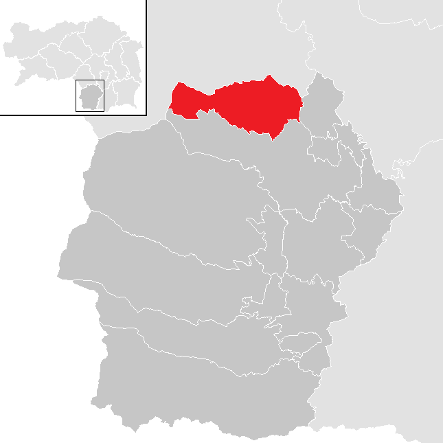 District Deutschlandsberg, Styria, Austria